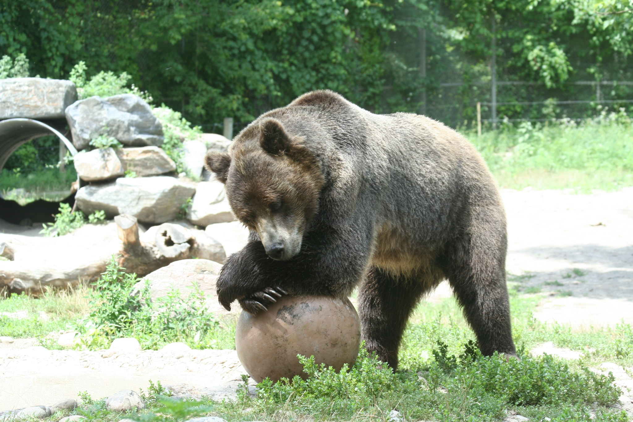 Grizzly bear lounging atop a ball. Taken at the Toronto Zoo (subject behind glass) with a Canon EOS 350D & 70-300mm f4-5.6 IS USM lens. – Ber'Zophus